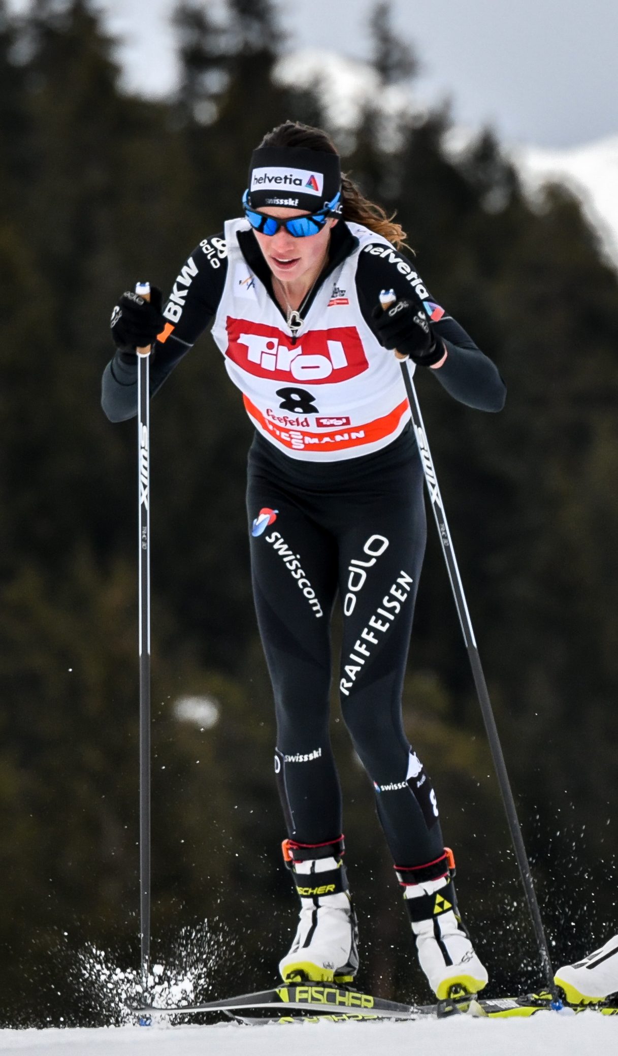 Seefeld-Triple 2018, third day January 28th. Picture shows Nathalie von Siebenthal, Switzerland.